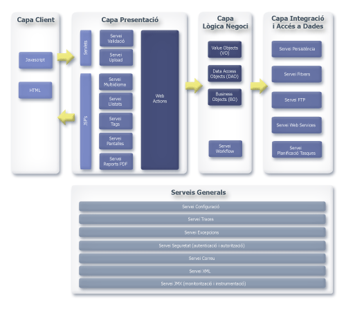 Openframe Architecture